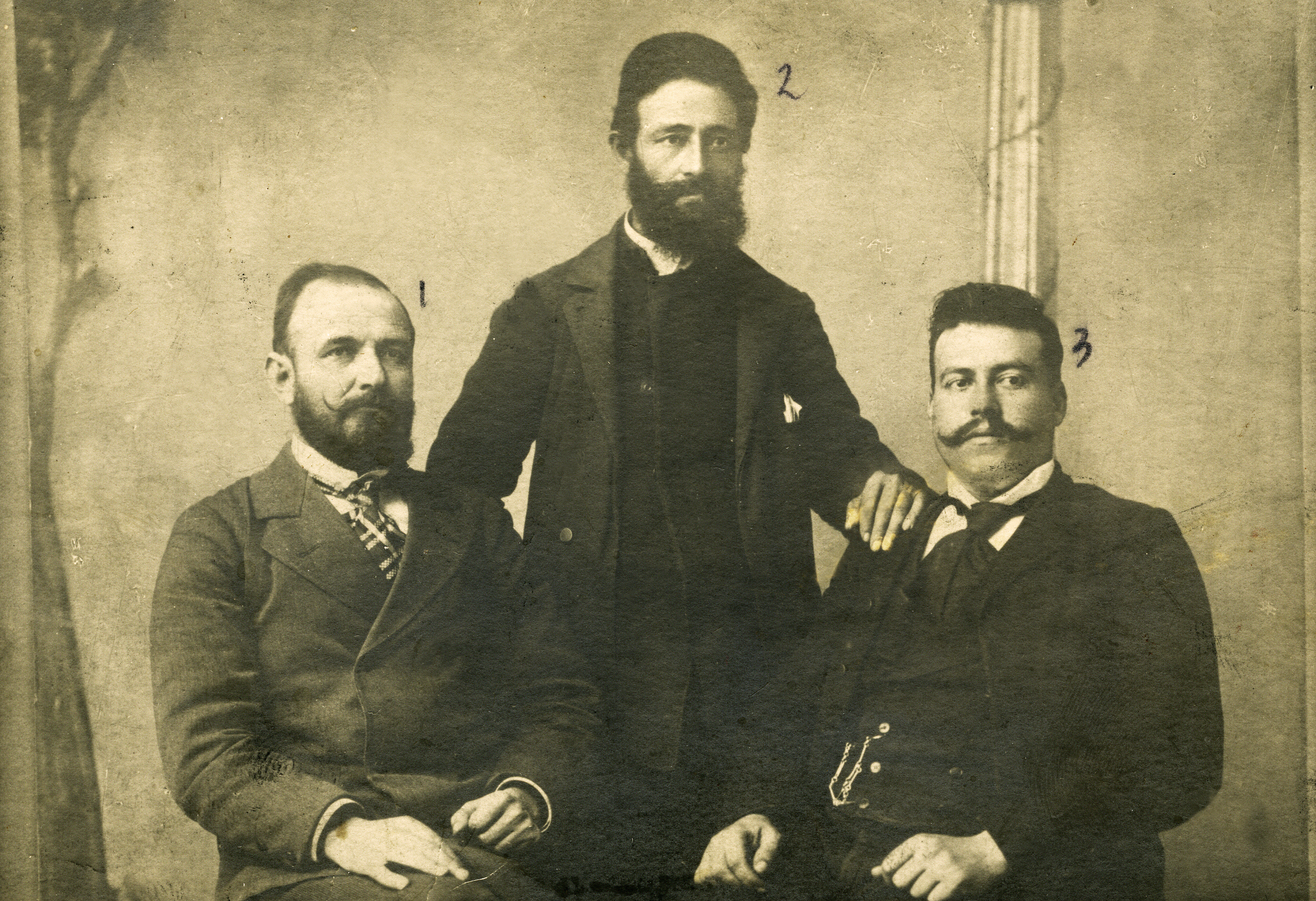 This photo is provided by the Historical Museum in Dupnitsa and is included in the album "Dupnitsa through the centuries" („Дупница през вековете“). Dupnitsa Municipality, Historical Museum - Dupnitsa. ISBN 978-954-8187-89-3.